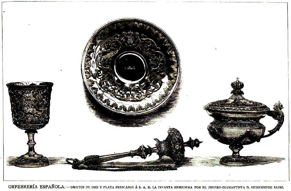 OBJECTS OF GOLD AND SILVER DEDICATED TO S. A. R. INFANTA MARIA DE LAS MERCEDES, THE HEIRESS, BY JEWELRY D. Gumersindo Sainz Lopez de Barrera